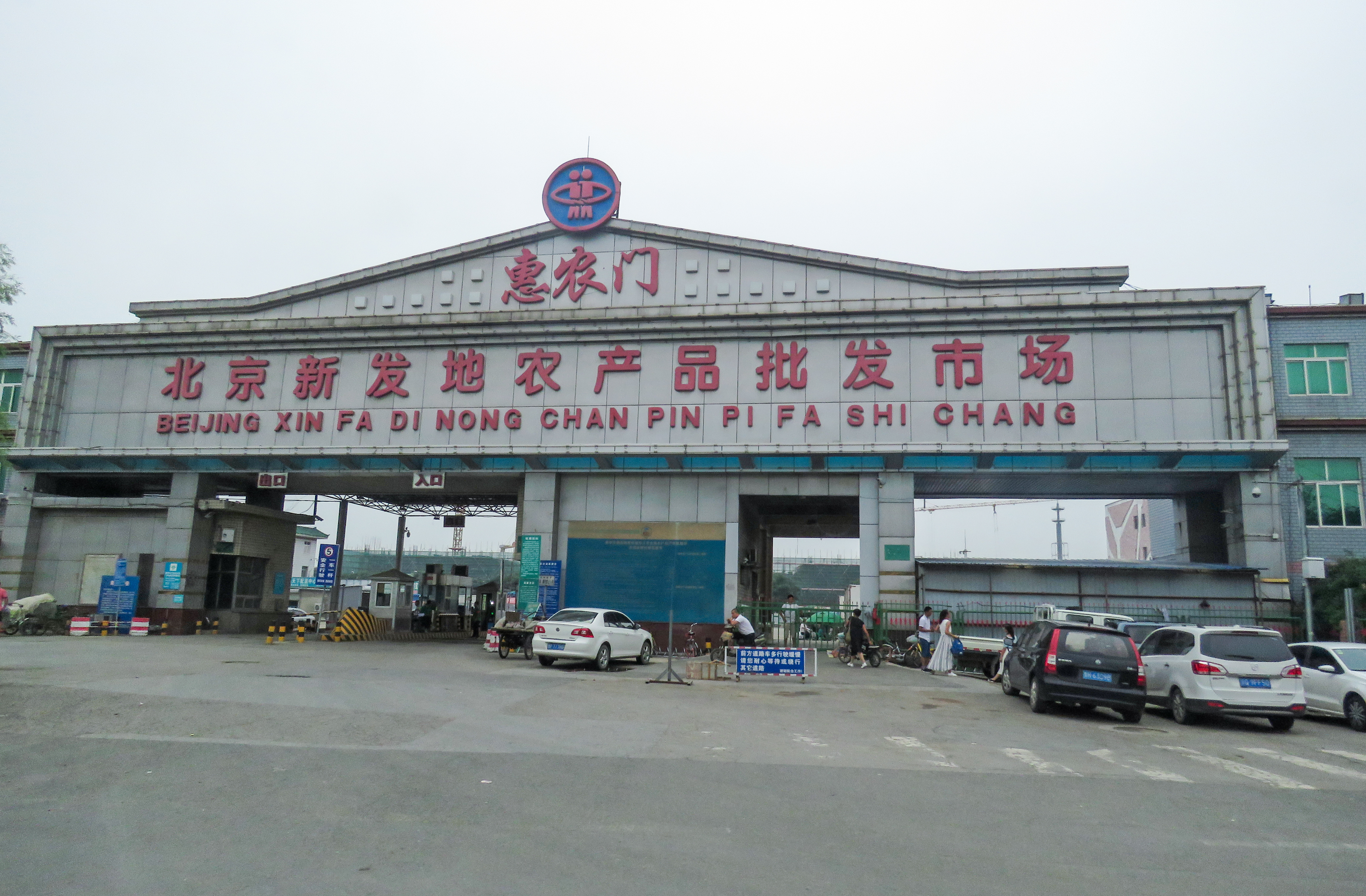 Xinfadi is sometimes nicknamed "Newfoundland" - 新（new）发（found）地（land）.